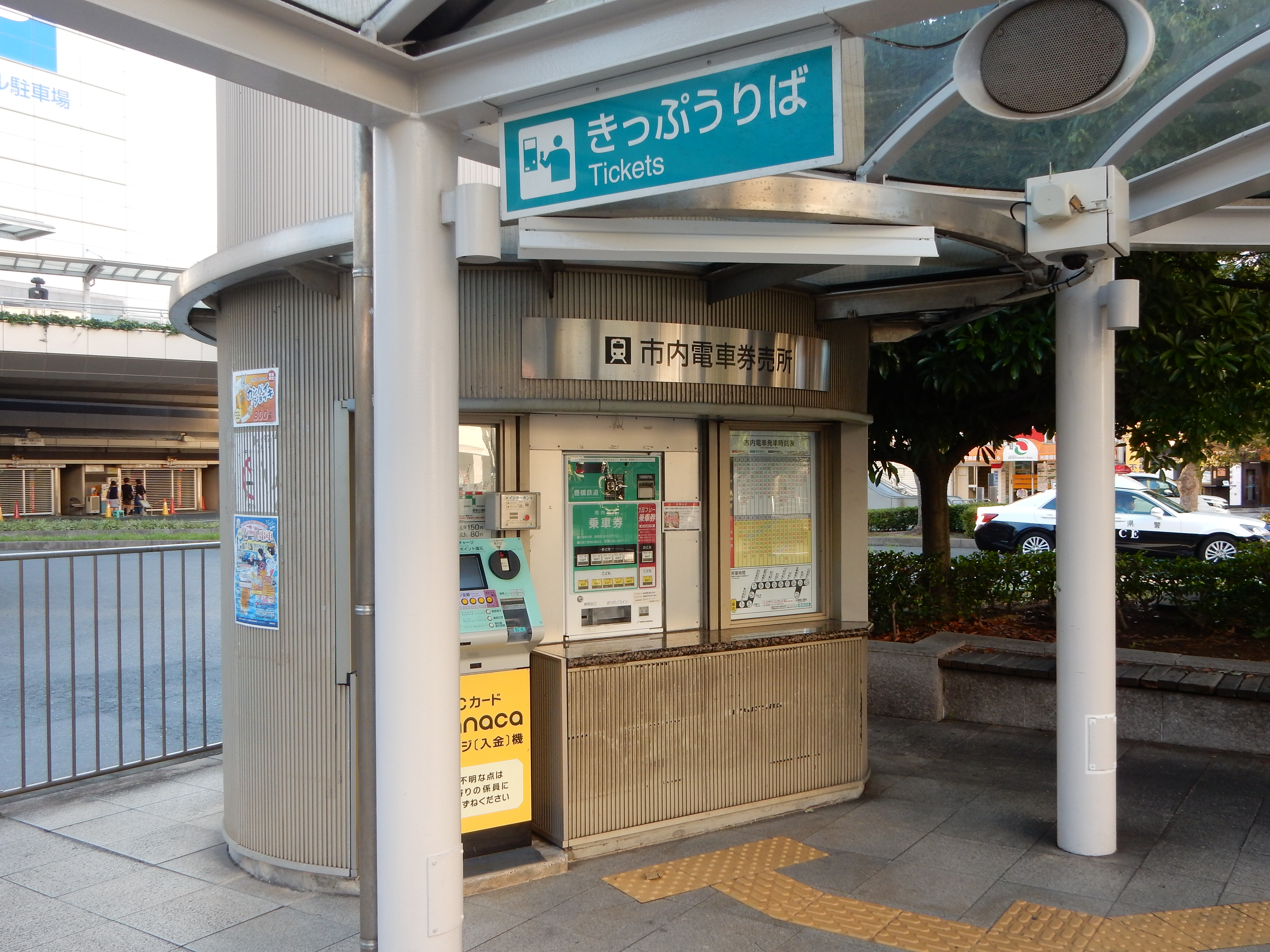 Ekimae Tram Stop (駅前停留場 Ekimae Tēryūjō), located at nishijuku, Hanada-cho, Toyohashi, Aichi, Japan